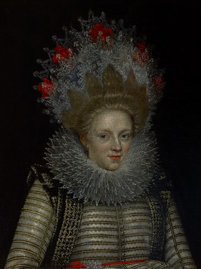 part of Elizabeth Cary playwright painting by Paul van Somer, Flemish, 1576–1621